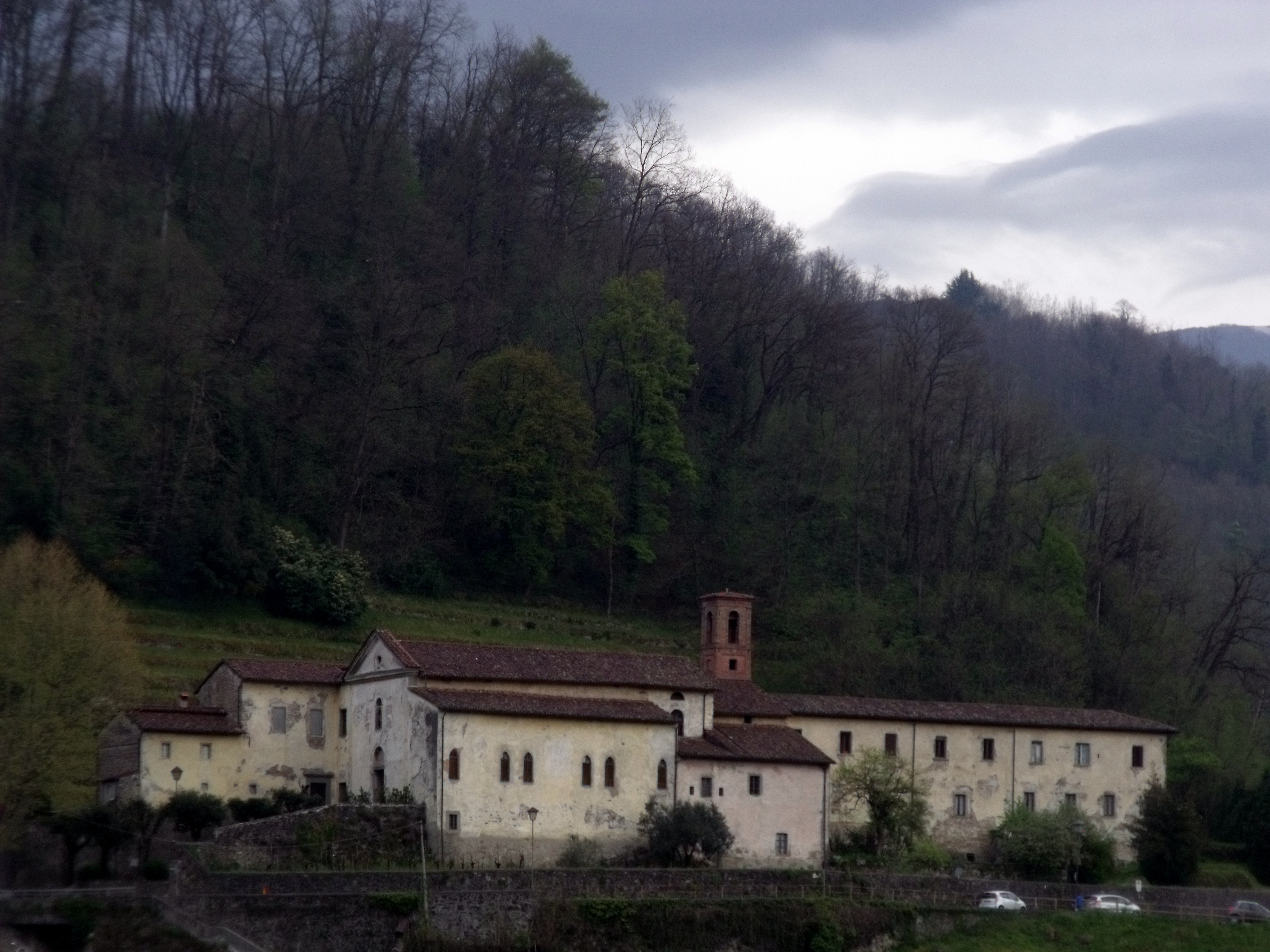 Convent/Monastery Convento dei Cappuccini, Castelnuovo di Garfagnana, Province of Lucca, Tuscany, Italy